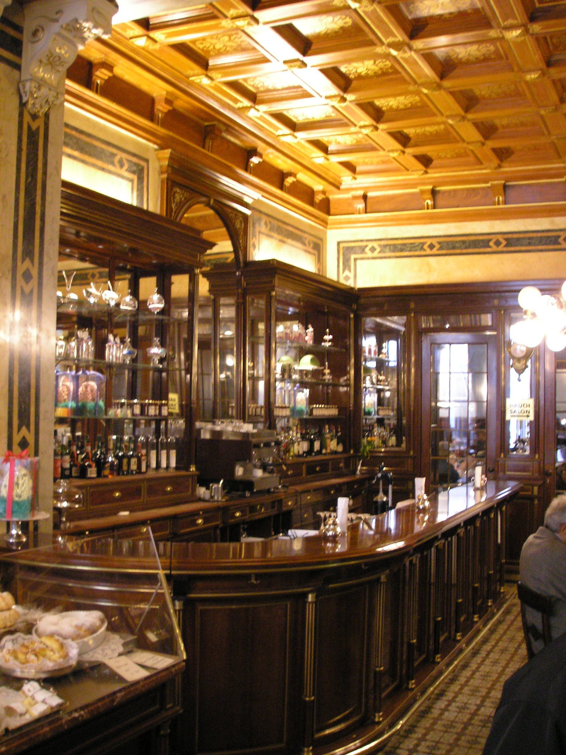 Description: Interior view of the Café Demel in Vienna. Source: self-made, I release it into the public domain. Gryffindor 22:22, 23 March 2006 (UTC)